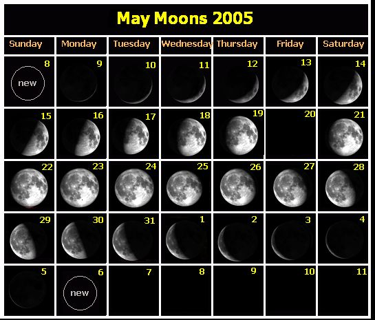 Moon phase calendar, May-June 2005 Image:FullSkyAstronomySoftwareLogo.png